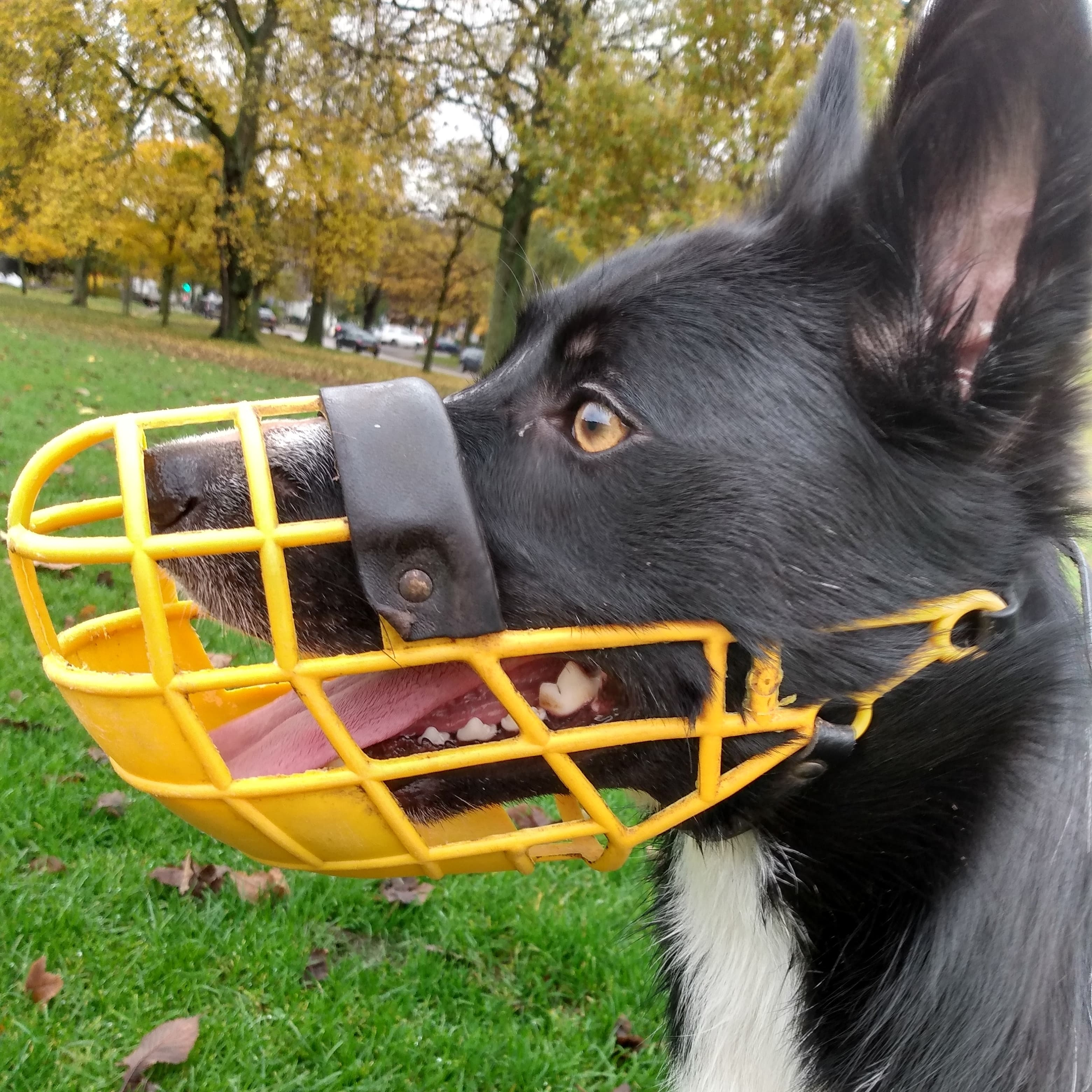 Closeup short of a Border Collie named Morango, wearing a yellow kennel greyhound muzzle.